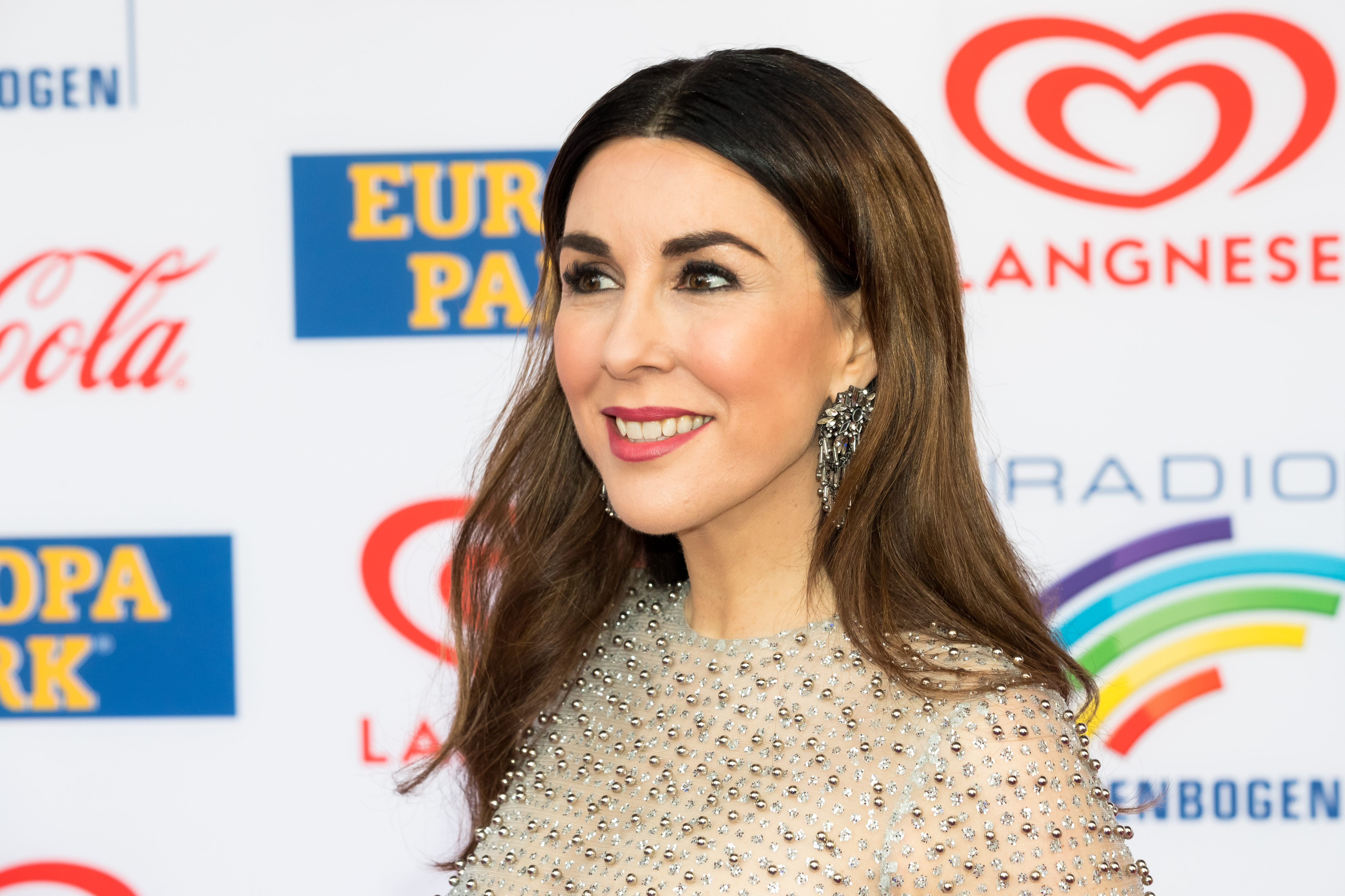 Judith Williams during Radio Regenbogen Award 2019 at Europapark, Rust, Baden-Württemberg, Germany on 2019-04-12, Photo: Sven Mandel